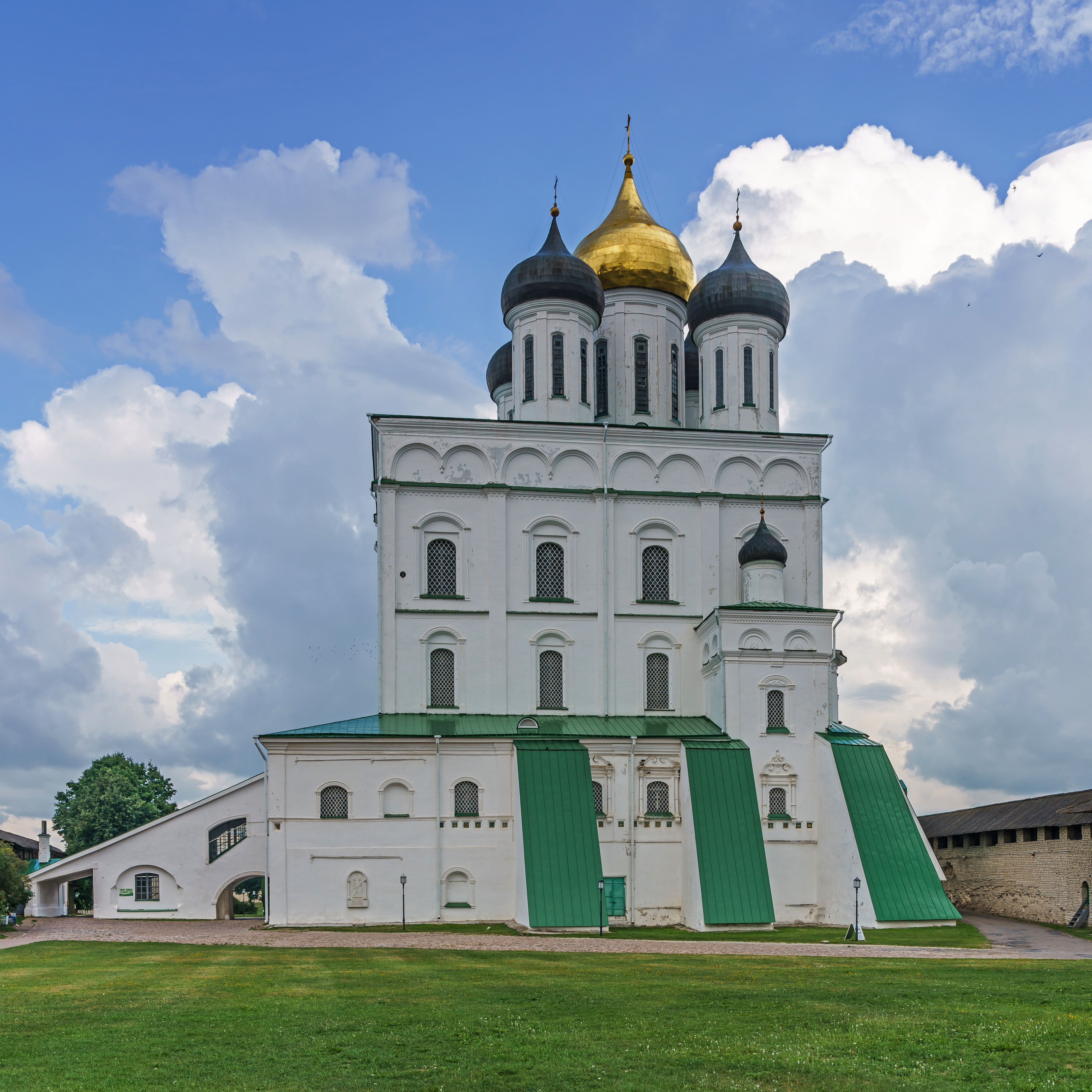 Trinity Cathedral in the Kremlin in Pskov, Russia